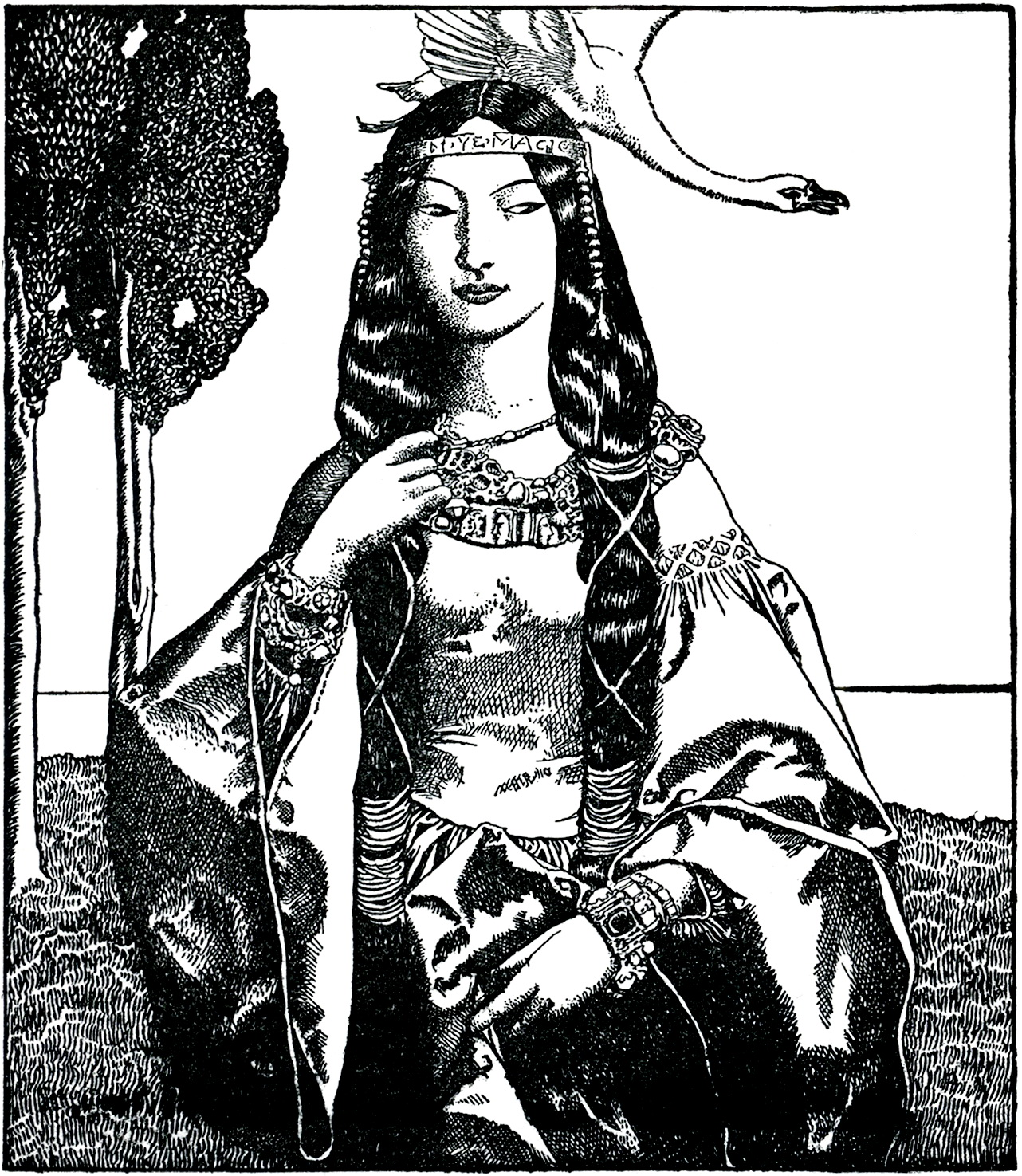 Howard Pyle illustration from the 1903 edition of The Story of King Arthur and His Knights scanned and archived at where it was marked as Public Domain.